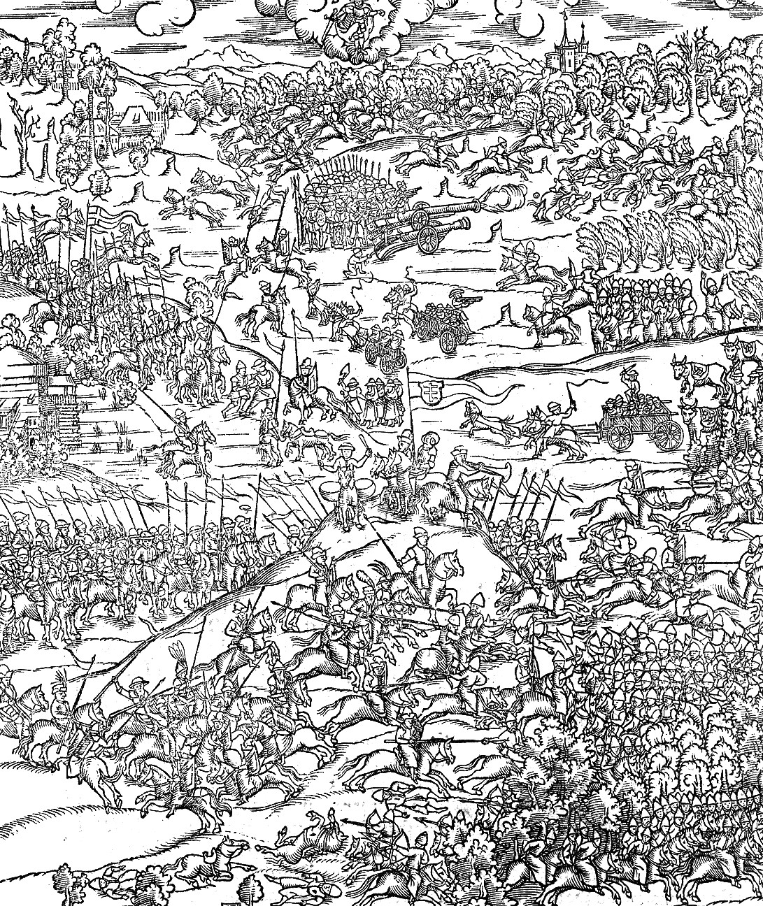 Illustration of a Lithuanian battle against the Tatars. It is usually said that the image depicts the Battle of Kletsk in 1506. However, the flag with Piława coat of arms of Grand Crown Hetman Mikołaj Kamieniecki suggest that this is an illustration of the Battle of Wisniowiec in 1512.